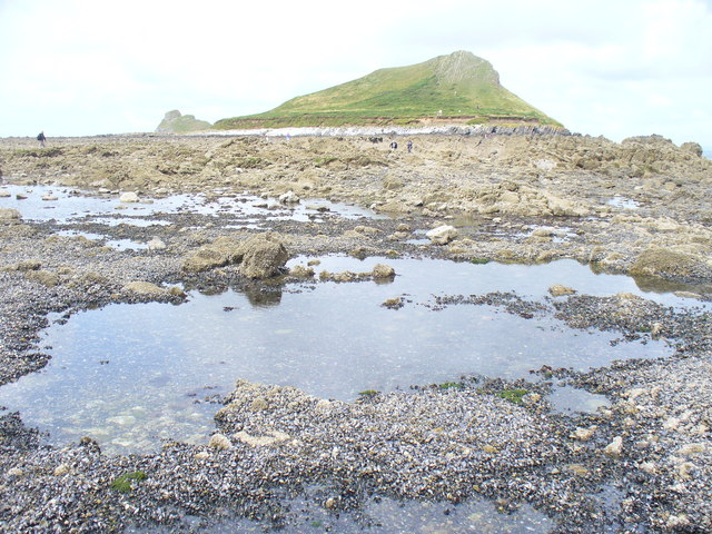 Causeway to Inner Head Mile long tidal causeway of limestone rocks with many mussel beds. Inner Head is the near hill. Worm's Head is in the distance.